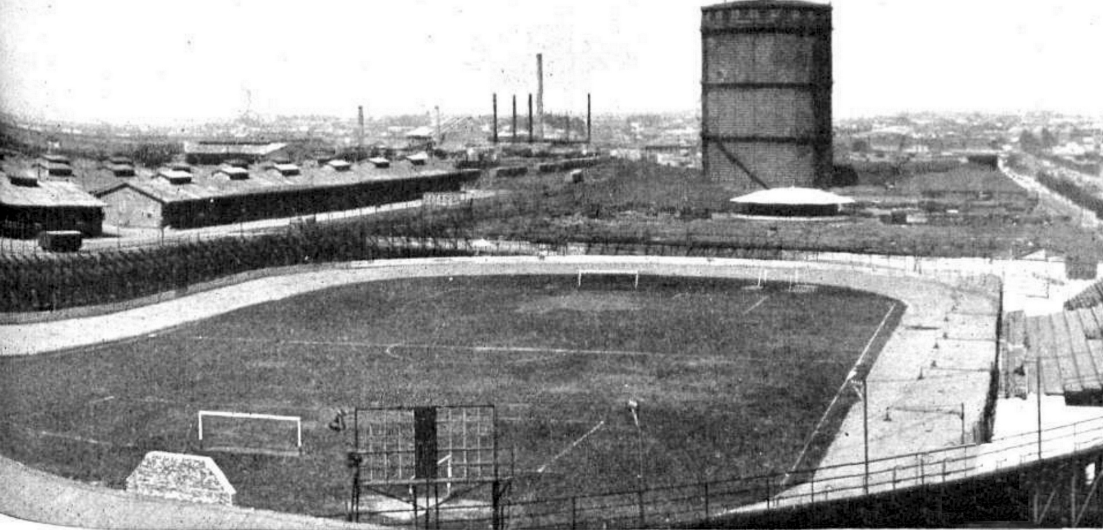 Former C.A. Huracán stadium, with wooden grandstands and velodrome.